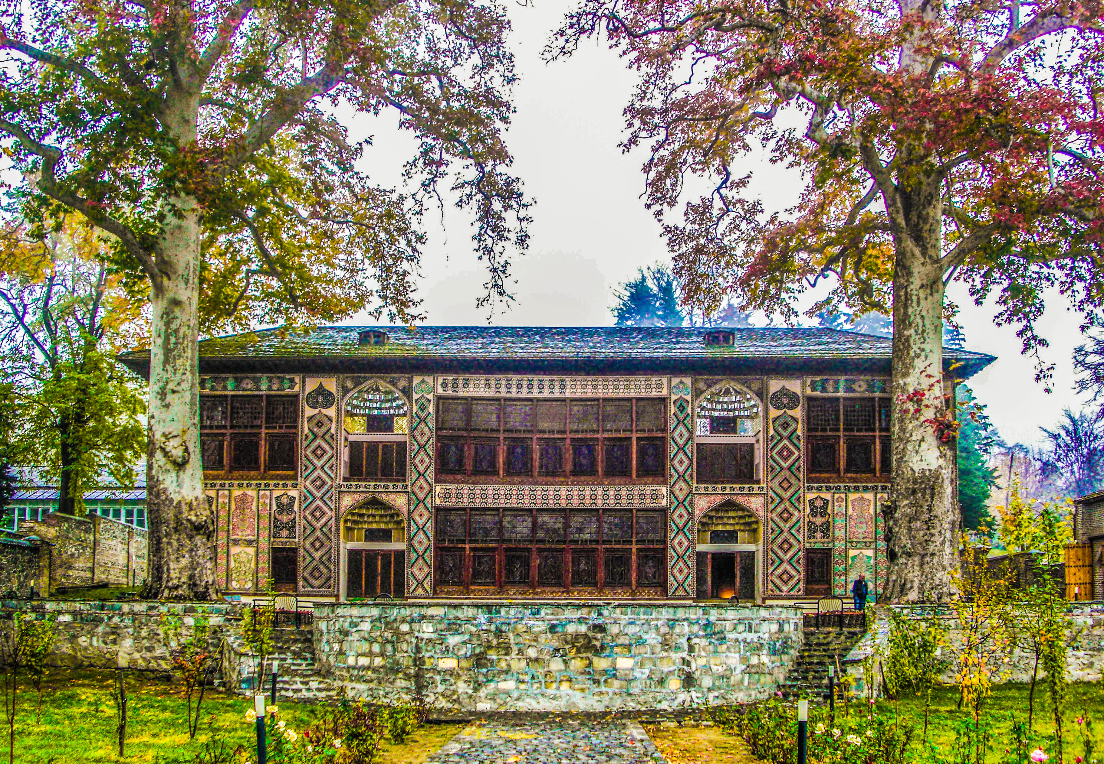 Şəki xan sarayı common